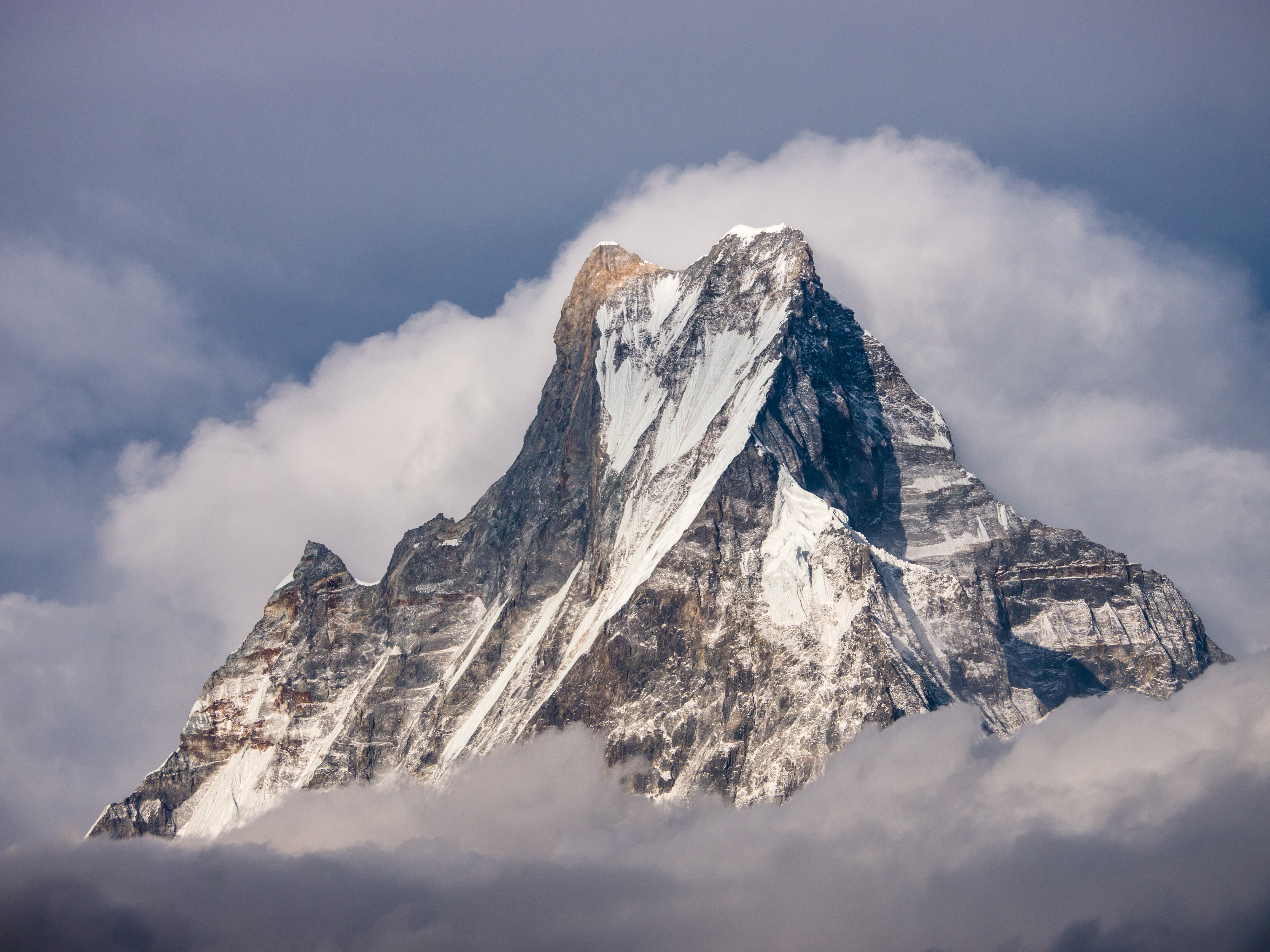 Machhapuchhare (6,997m) viewed from Tadapani. From here the origin of the name, meaning 'fish tail', becomes apparent.